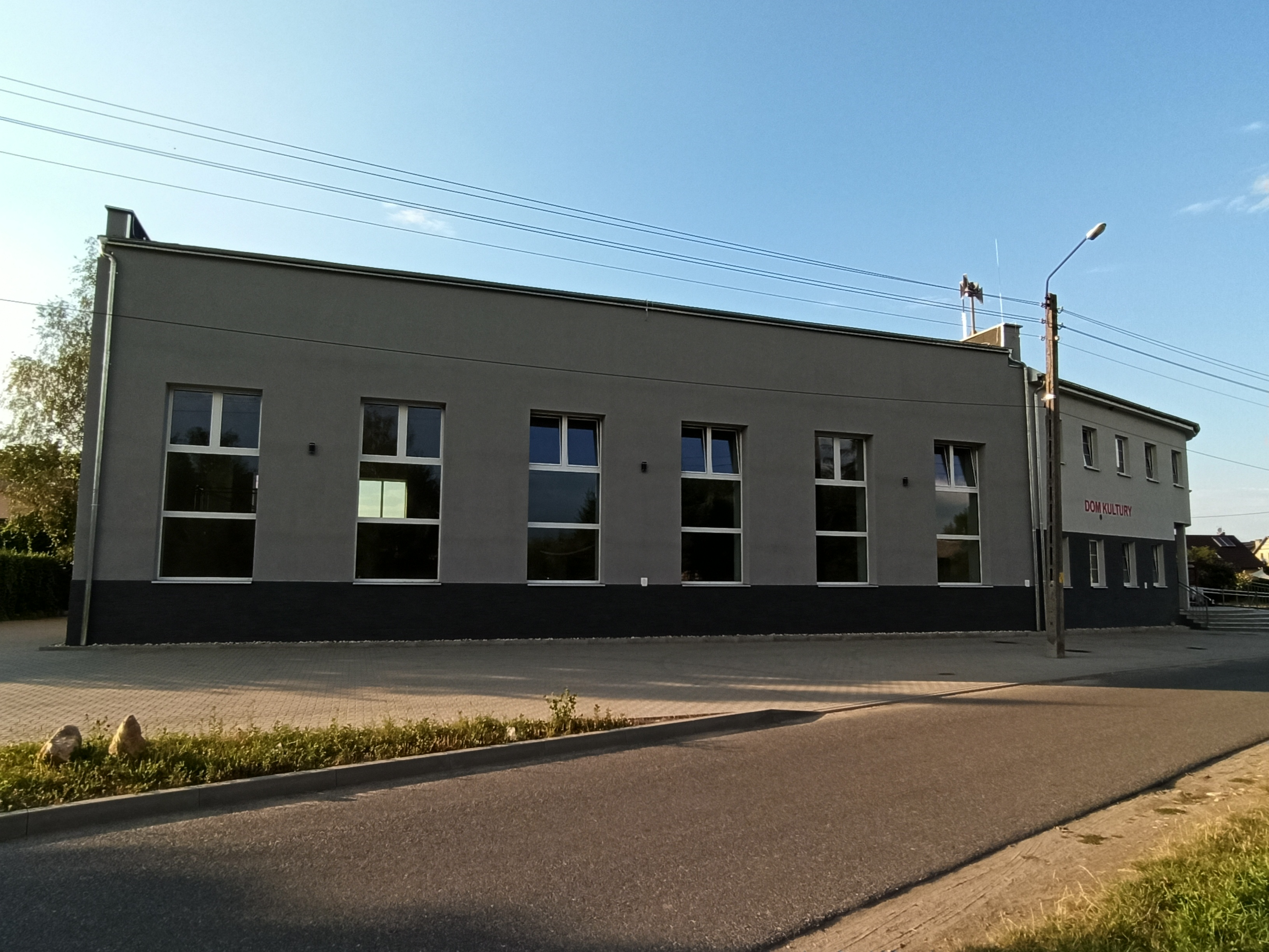 Łąka Prudnicka, Poland.